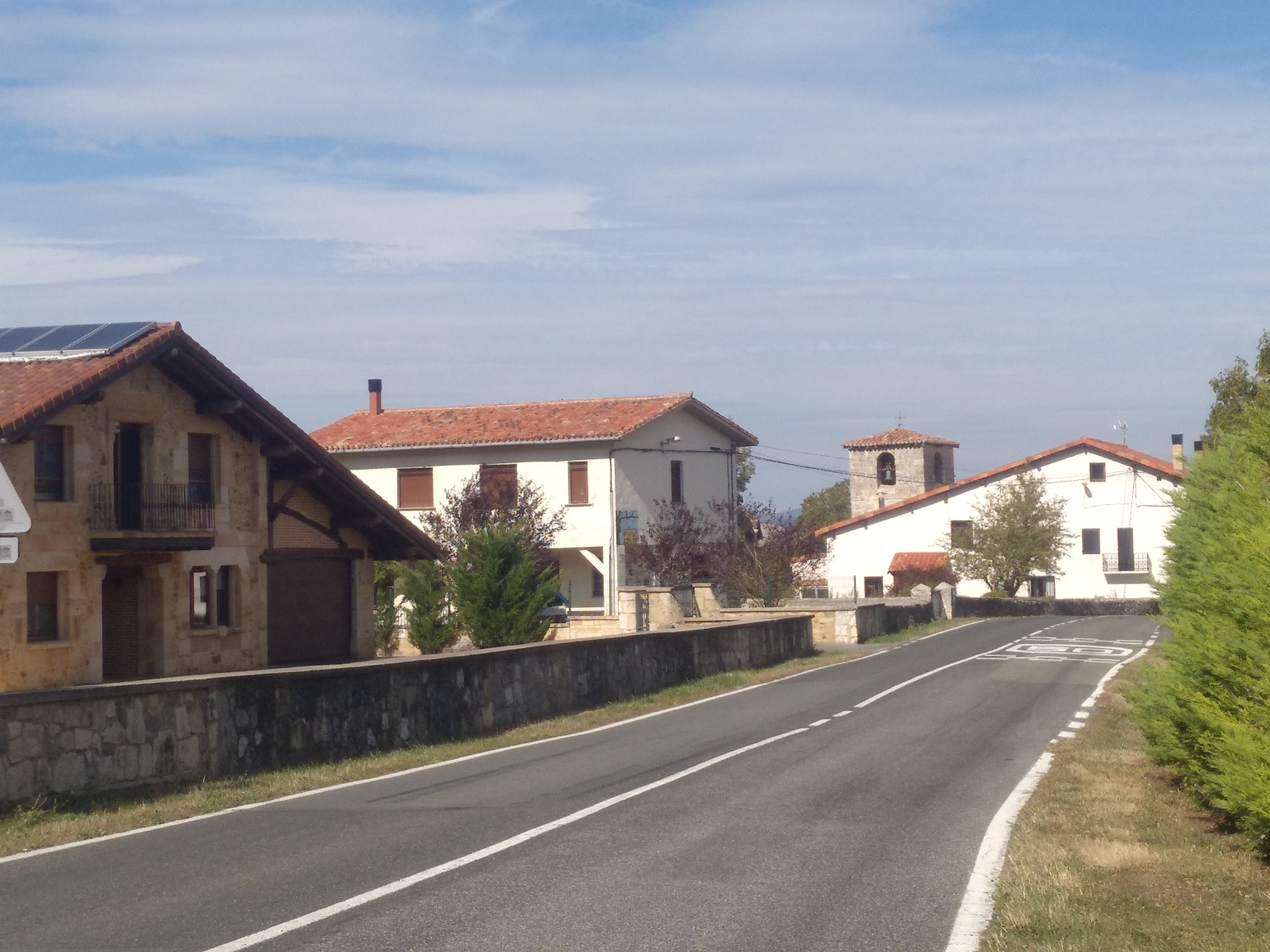 Opakua town in Agurain municipality